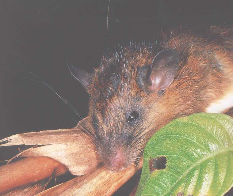 MT Abdullah. Tabdulla 11:51, 15 October 2006 (UTC). Probably a species of Maxomys or Niviventer.